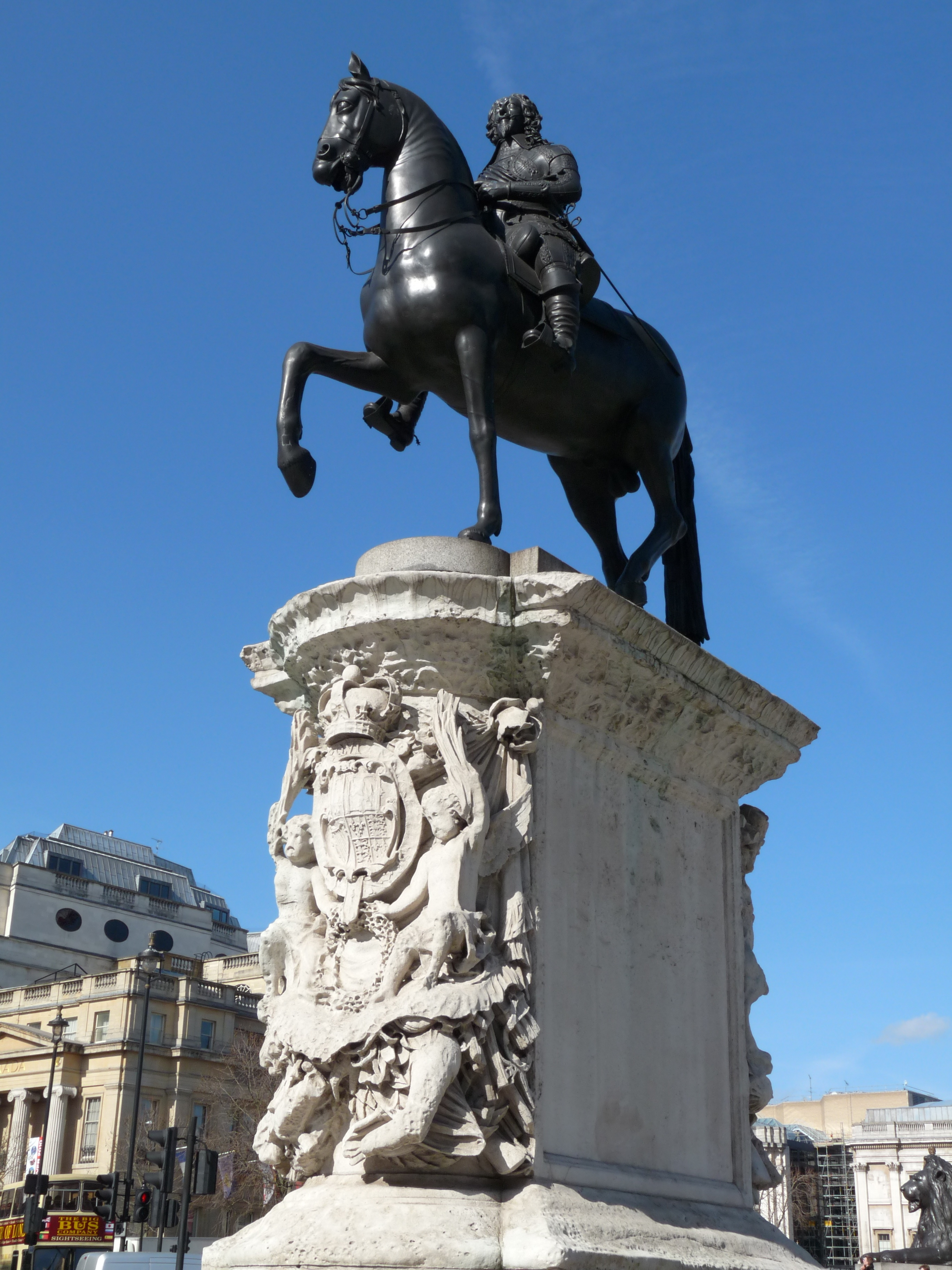 Equestrian statue of Charles I by Hubert Le Sueur at Charing Cross, London